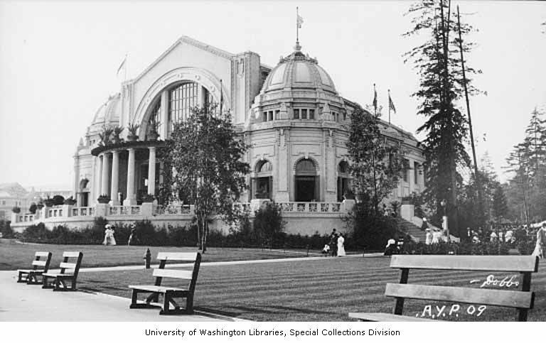 Beverly Bennett Dobbs was born in 1868 near Marshall, Missouri. In 1888 Dobbs moved to Bellingham, Washington and operated a photography studio there for 12 years. In 1900 Dobbs moved to Nome, Alaska and continued to work as a photographer capturing images of Nome, the Seward Peninsula and Inuit people. In 1909, Dobbs started the Dobbs Alaska Moving Picture Co. and began making films about the Gold Rush. By 1914, Dobbs had moved back to Seattle and was creating more films through the Dobbs Totem Film Company which he ran until his death in 1937. Caption on image: A.Y.P. 09. Dobbs. PH Coll 755.16 Subjects (LCTGM): Benches--Washington (State)--Seattle; People--Washington (State)--Seattle; Alaska-Yukon-Pacific Exposition (1909 : Seattle, Wash.)--Buildings--Washington (State)--Seattle; Alaska-Yukon-Pacific Exposition (1909 : Seattle, Wash.)--People--Washington (State)--Seattle Subjects (LCSH): Exhibition buildings--Washington (State)--Seattle Note that the title errs: this was the "Manufactures Building" not the "Manufacturers Building".